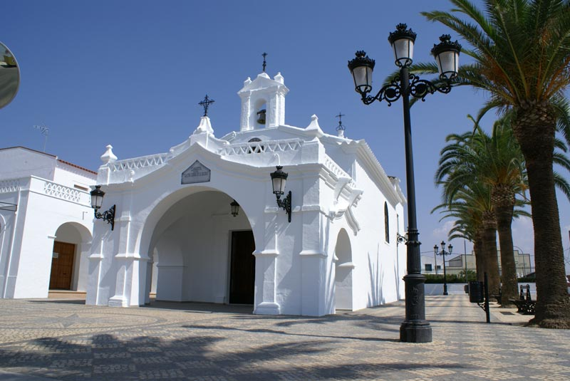 Ermita de Ntra. Sra. de la Soledad, Patrona de Aceuchal